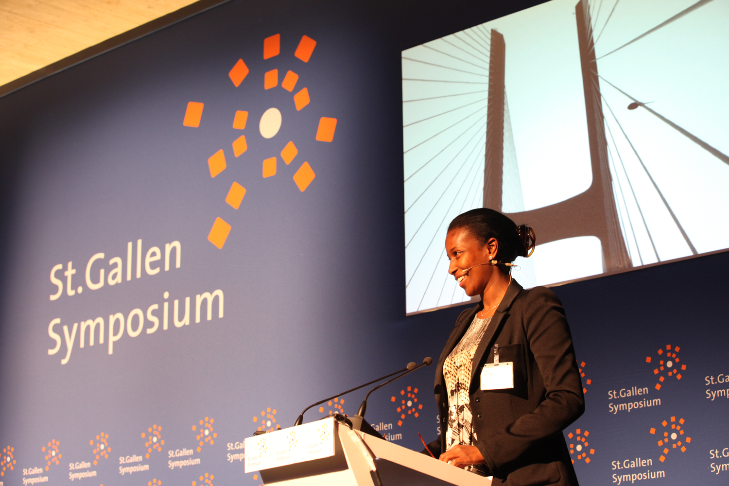 Ayaan Hirsi Ali in May 2011 at the 41. St. Gallen Symposium at the University of St. Gallen